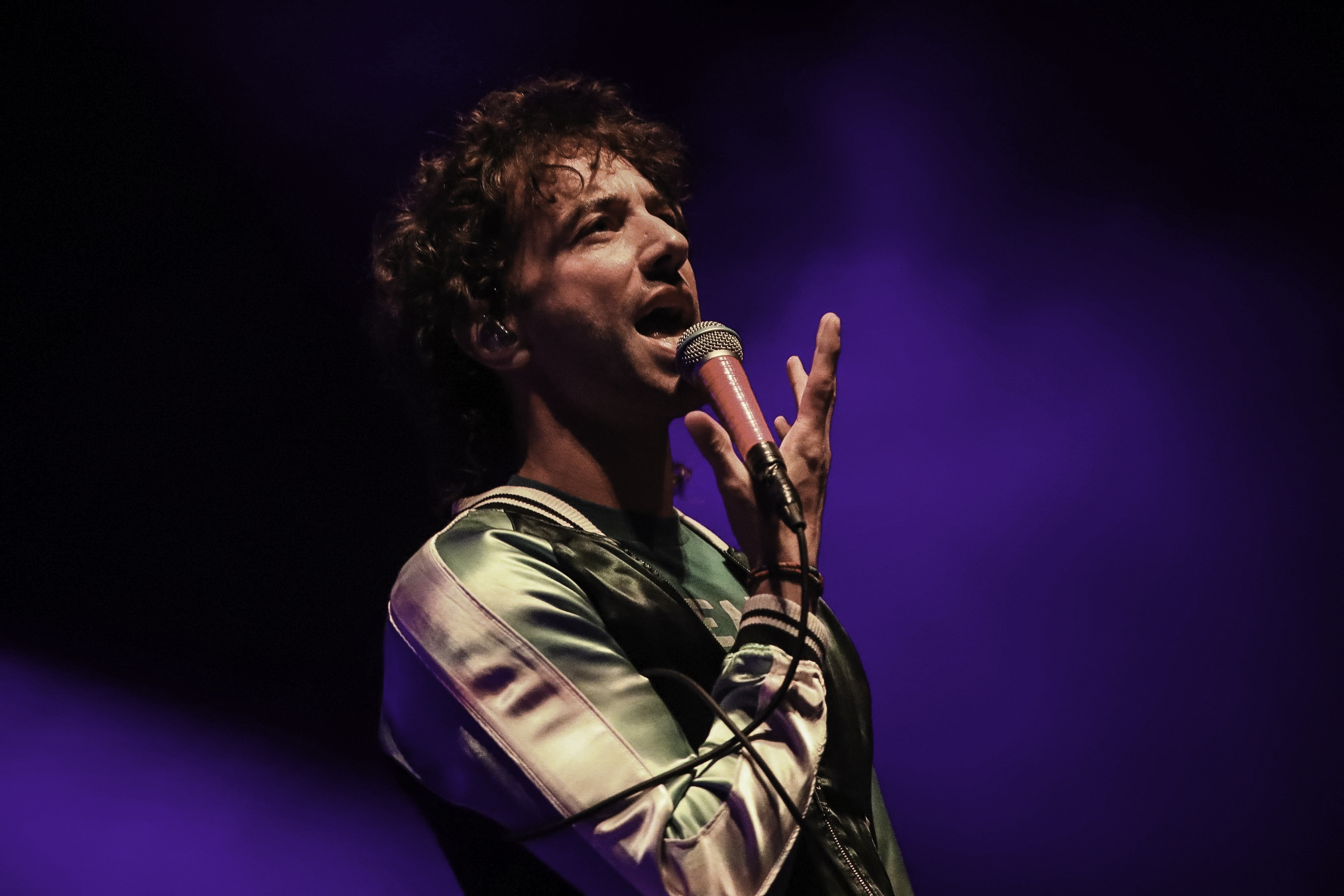 Albert Hammond Jr. - Palace Theatre - St. Paul - First Avenue